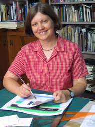 Carol Barton, book artist and paper eningeer, in her studio